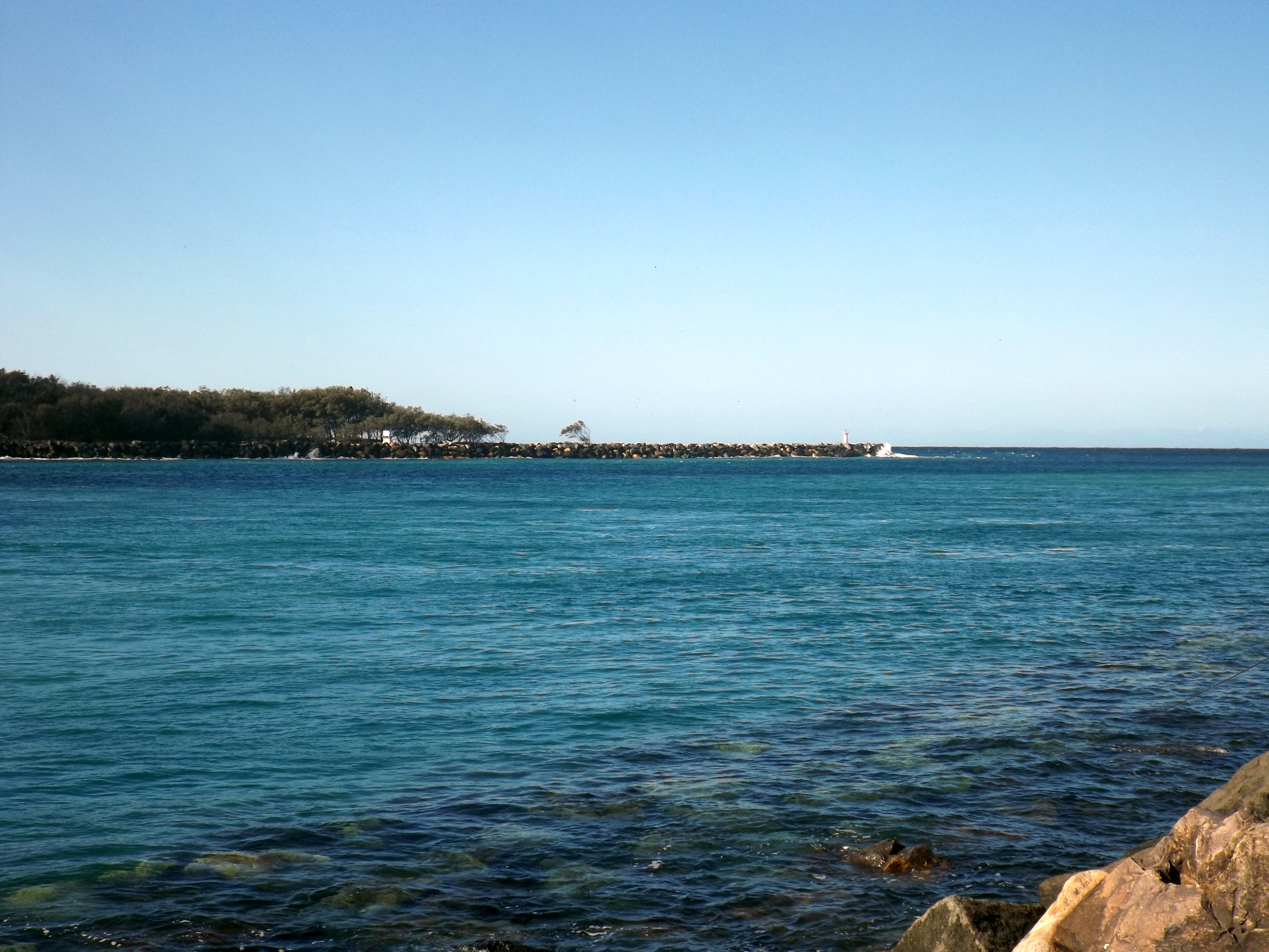 Photo of the Gold Coast Seaway at Main Beach, Gold Coast City, Queensland, Australia. South Stradbroke Island can be see in the background.